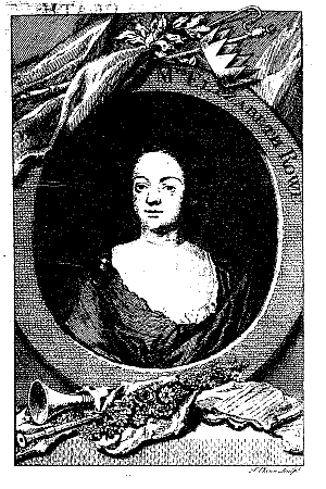 Frontispiece to Friendship in Death